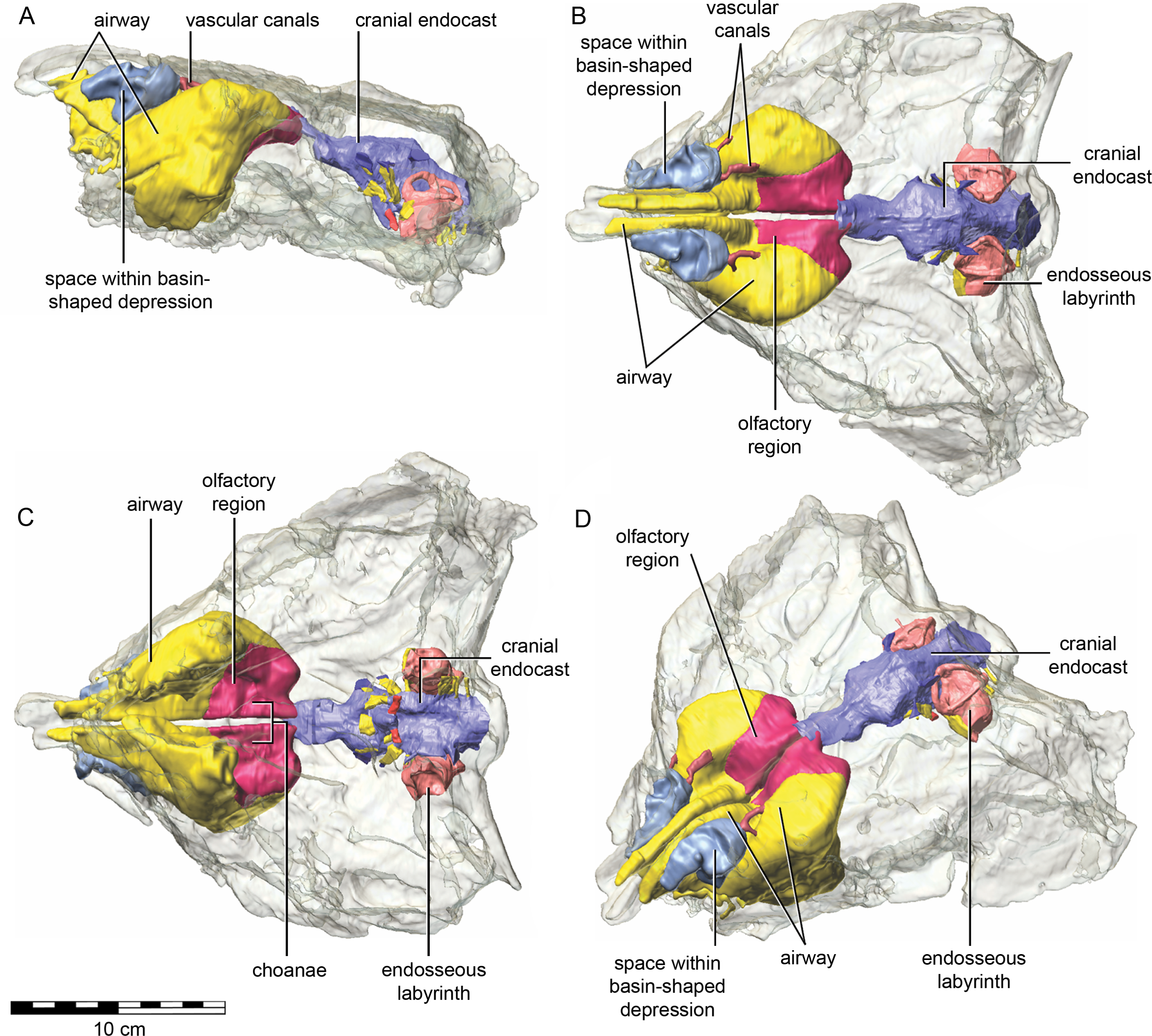 Semitransparent skull of Kunbarrasaurus ieversi gen. et sp. nov. (QM F18101) showing the position of components of the nasal cavity, cranial endocast, and endosseous labyrinth of the inner ear in (A) left lateral aspect, (B) dorsal aspect, (C) ventral aspect, and (D) left rostrodorsolateral aspect.